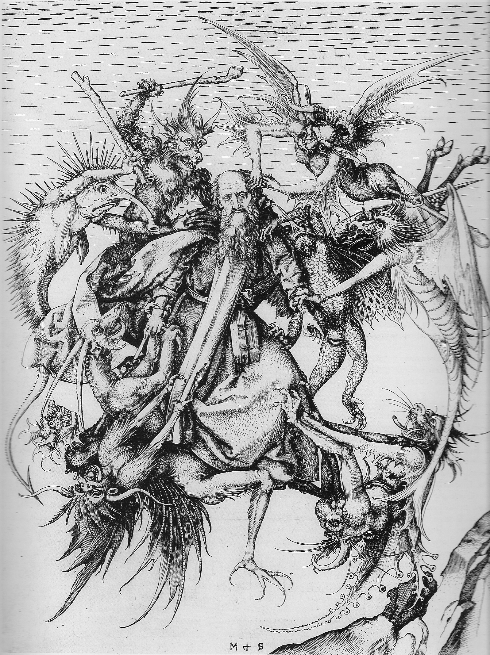 The Temptation of Saint Anthony